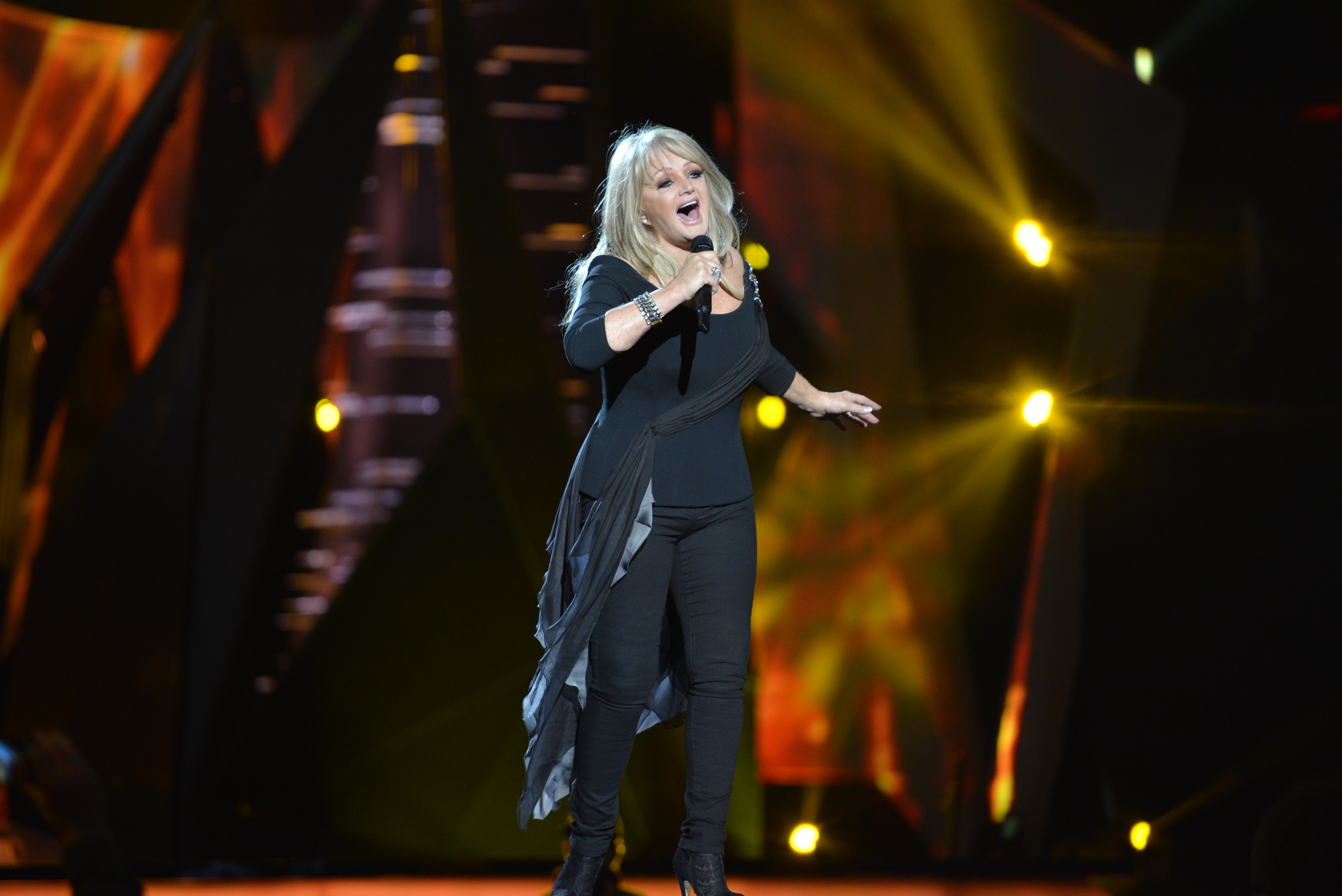 Bonnie Tyler representing United Kingdom with the song "Believe in Me" during the first dress rehearsal for "the Big Five" in the Eurovision Song Contest 2013 in Malmö. (Help translate this text)